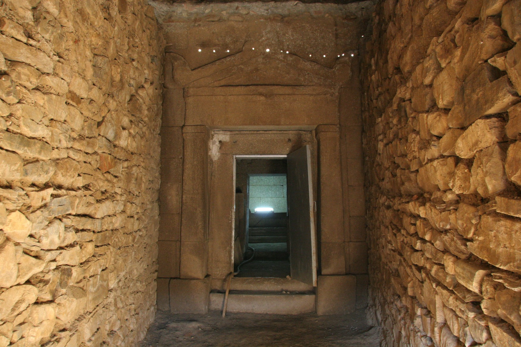 view from inside